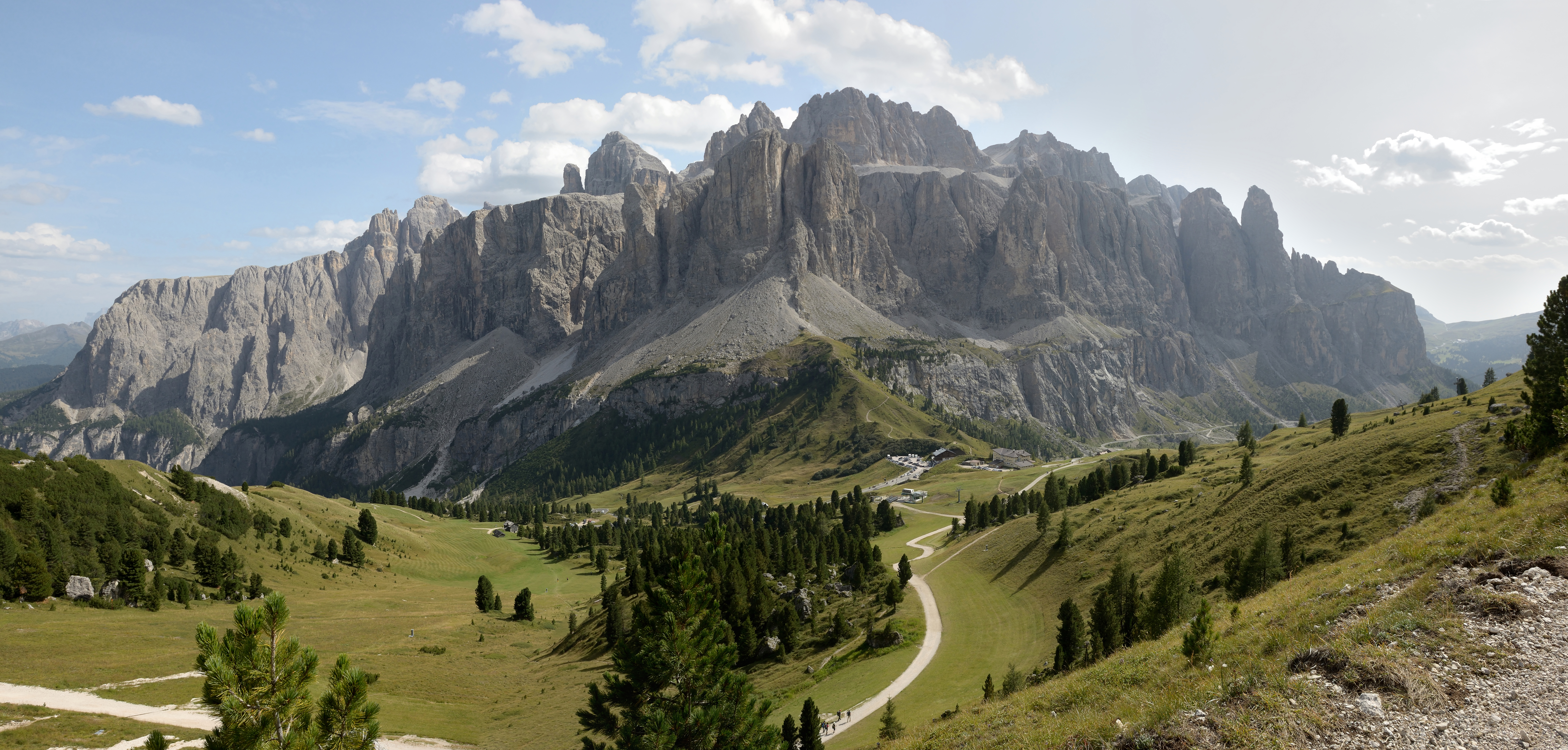 Pisciadu, Sas dla Luesa, Val Culea, Schiefer Tod, Gamsscharte, Murfreit in the Sella group and the Gardena Pass in the Dolomites - South Tyrol